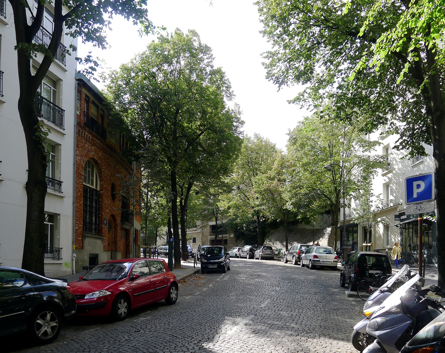 Junot avenue - Paris